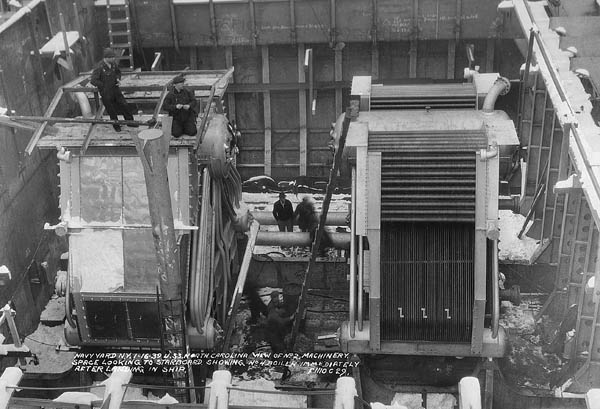 Brooklyn Navy Yard, NY - View of no.2 machinery space looking starboard, showing no.4 boiler immediately after landing in ship.